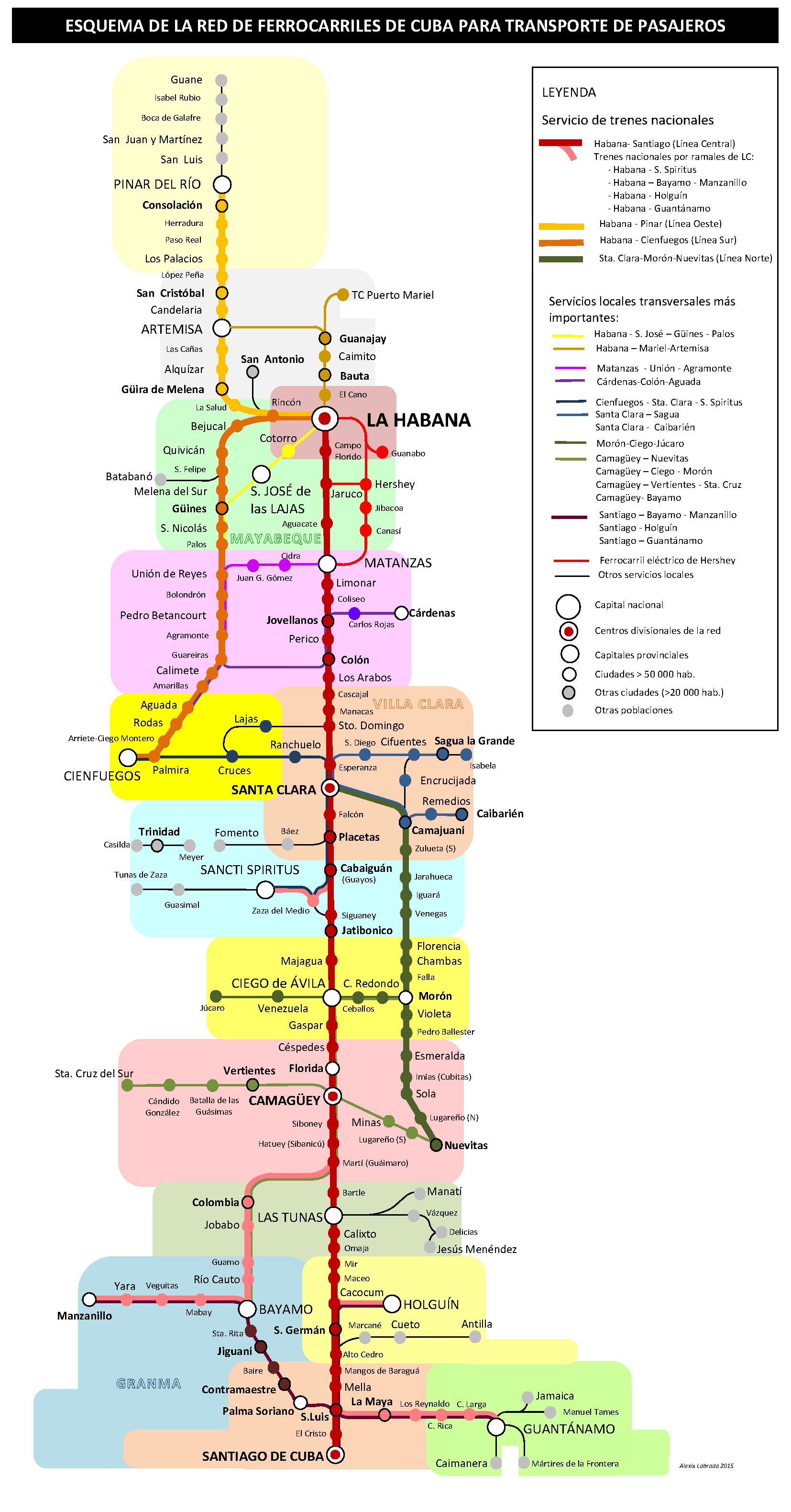 Schematic drawing of the railroad network in Cuba for passenger transportation